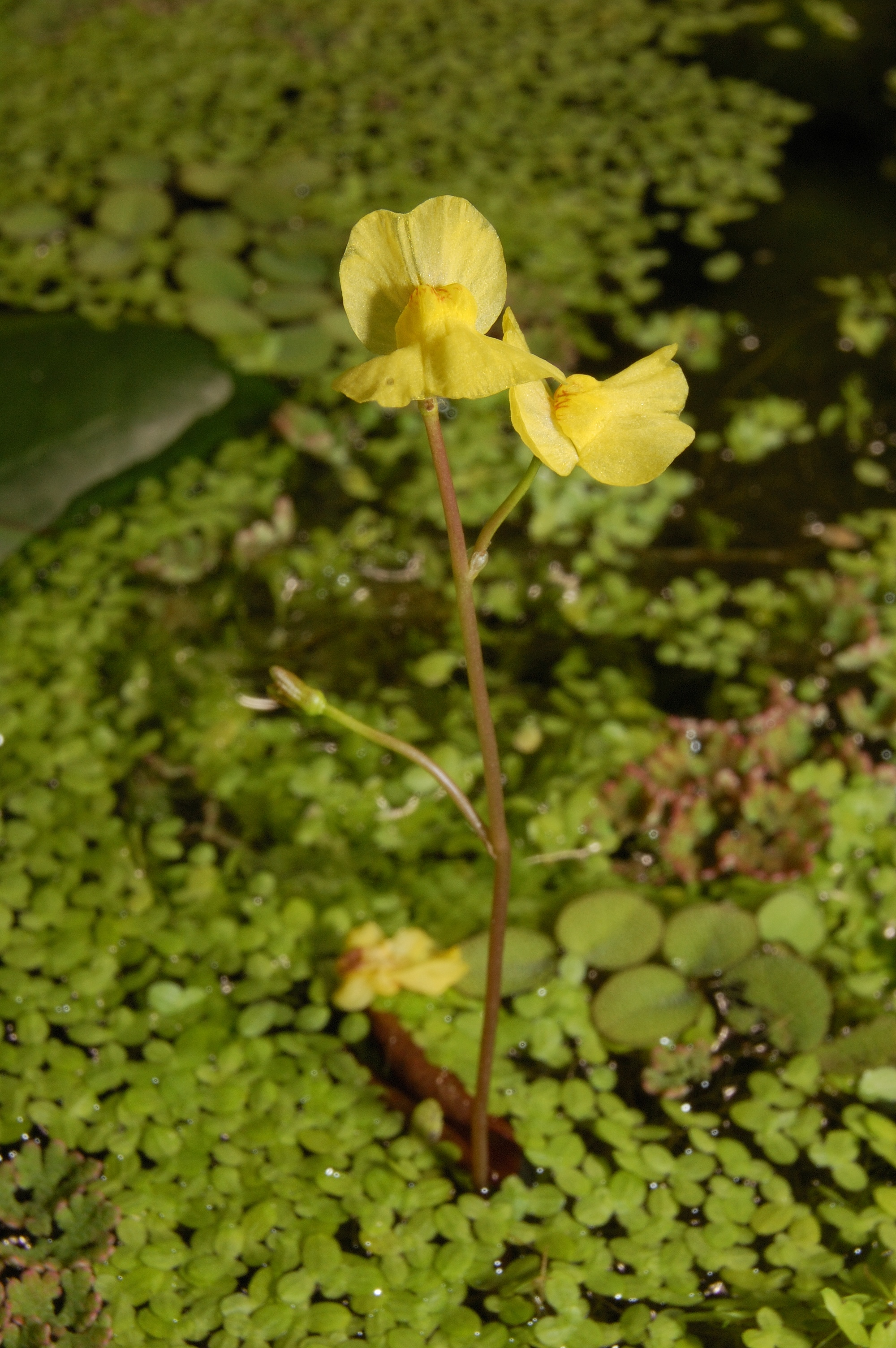 Utricularia aurea